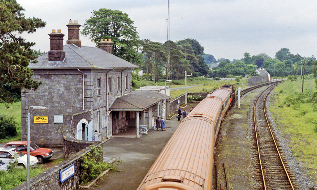 Clara Station, View westward, towards Athlone etc.; ex-Great Southern & Western, Dublin - Portarlington - Athlone and Galway/Westport main line, former branches to Banagher and to Streamstown, closed 1962-63. Dublin - Galway train in station.